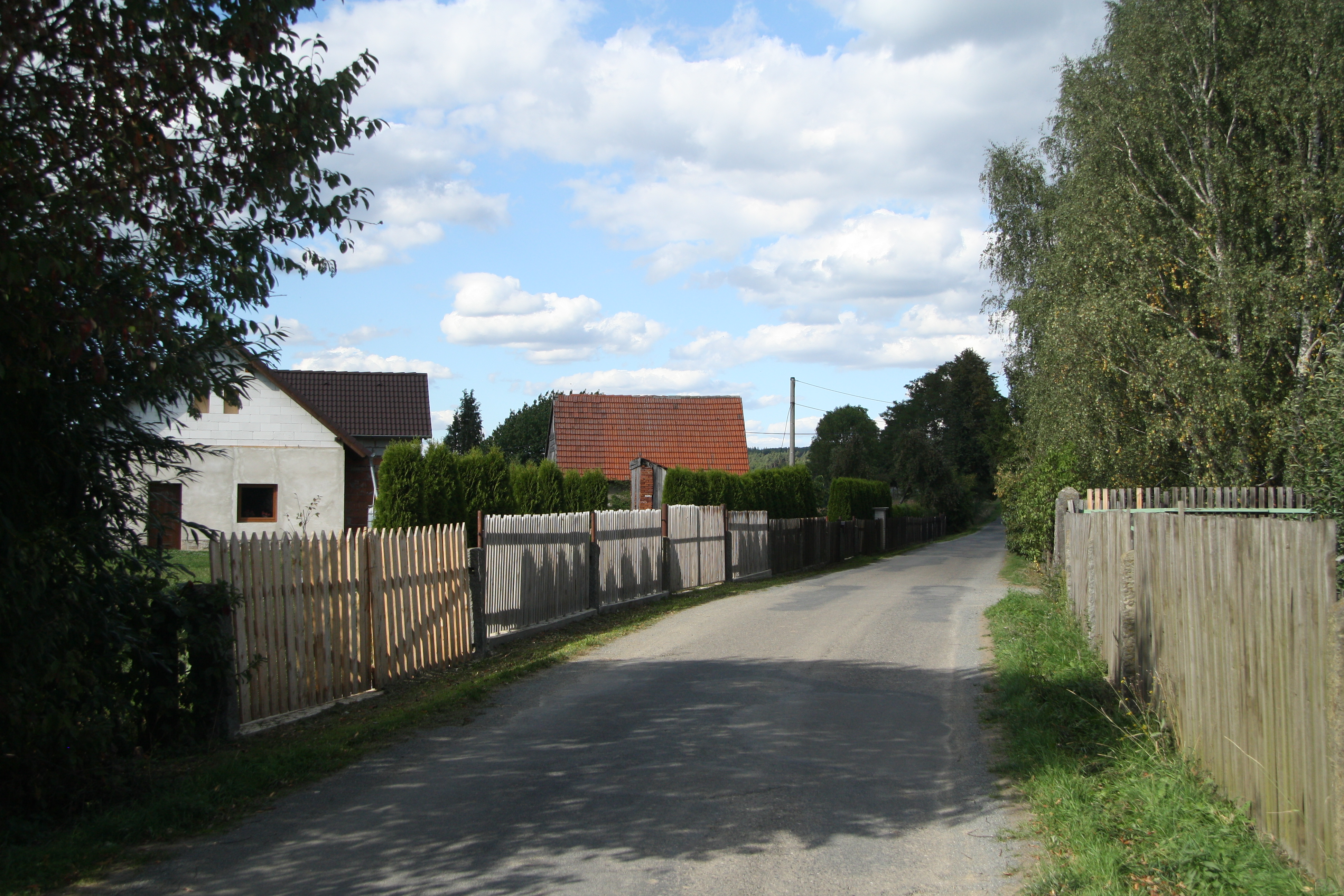 Center of Dubliny, Radíč, Příbram District.